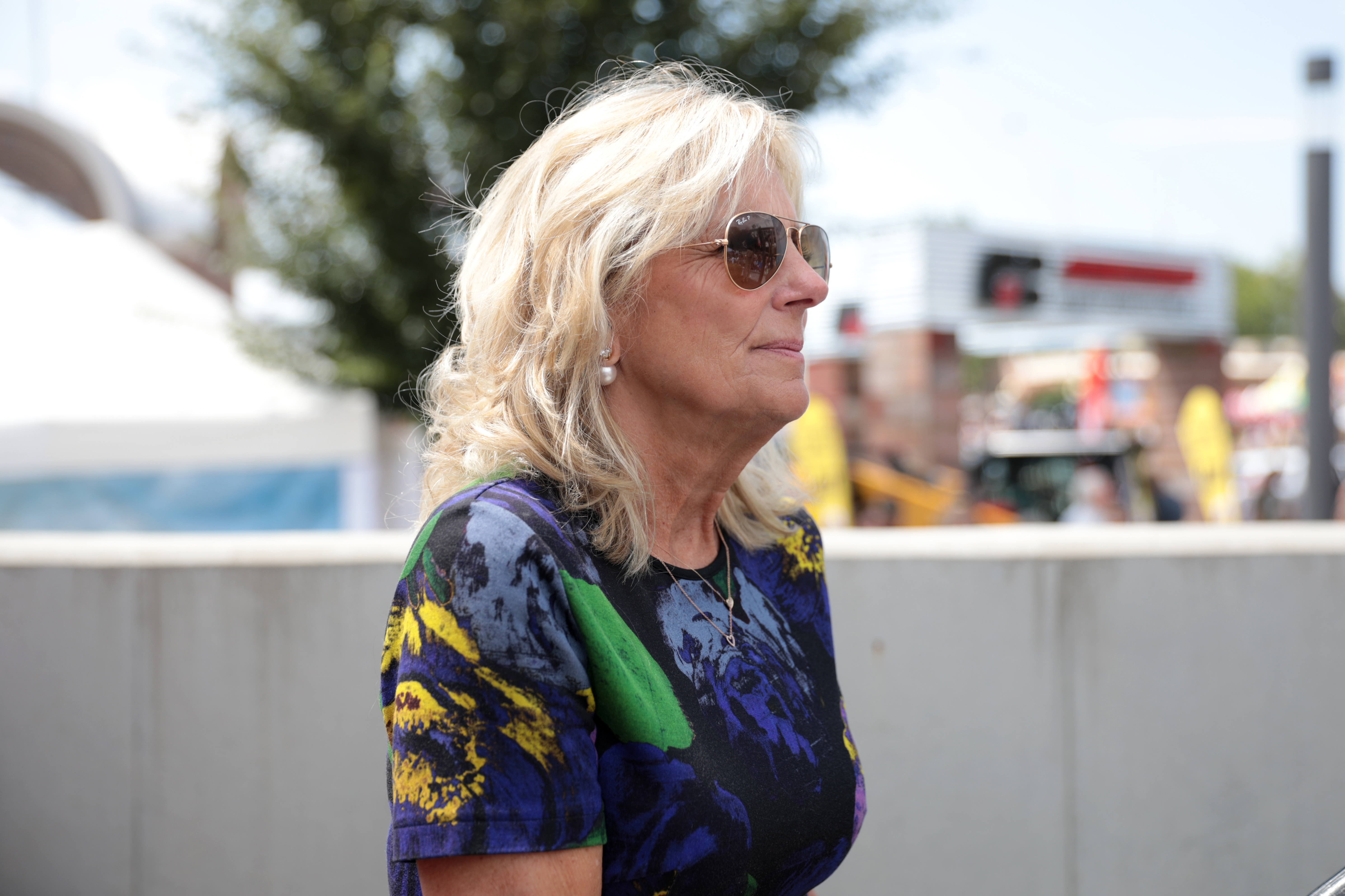 Former Second Lady of the United States Jill Biden at the Des Moines Register's Political Soapbox at the 2019 Iowa State Fair in Des Moines, Iowa.